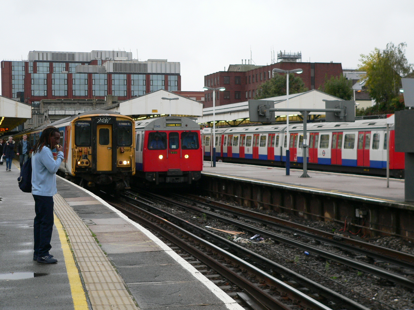 South West Trains Class 455 electric multiple unit 455913 stands adjacent to London Underground C-stock number 5545 at Wimbledon station on 24 October 2005